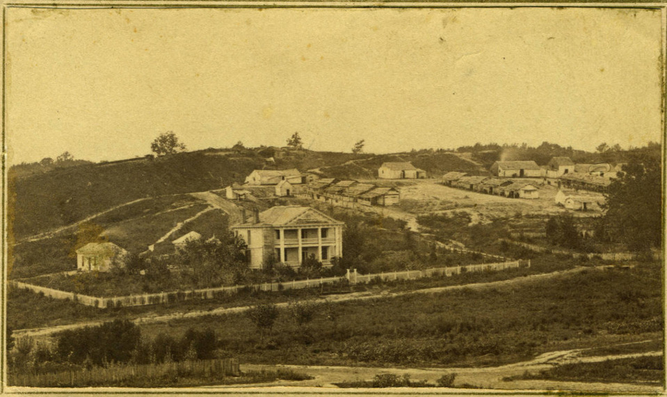 James C. Tappan House, Helena, Phillips County, Arkansas. Butler Center for Arkansas Studies, Central Arkansas Library System, Civil War photograph collection